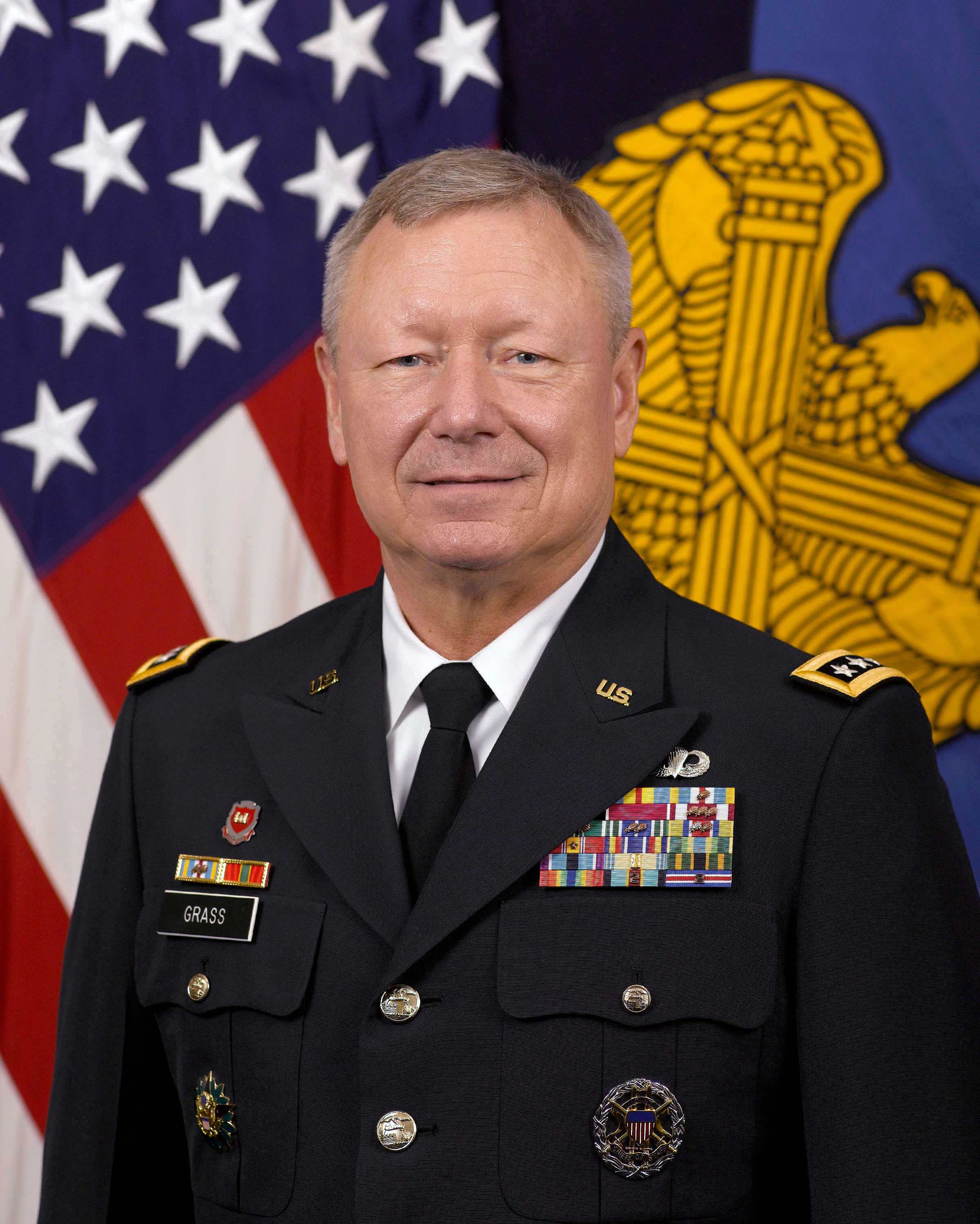 General Frank J. Grass, U.S. Army, 27th Chief of the National Guard Bureau, Joint Chiefs of Staff.